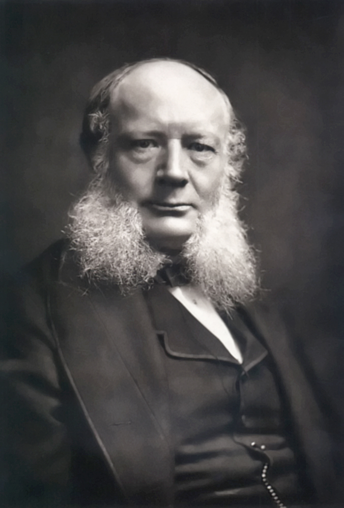 Title: Wilhelm Siemens illuminated by electric light